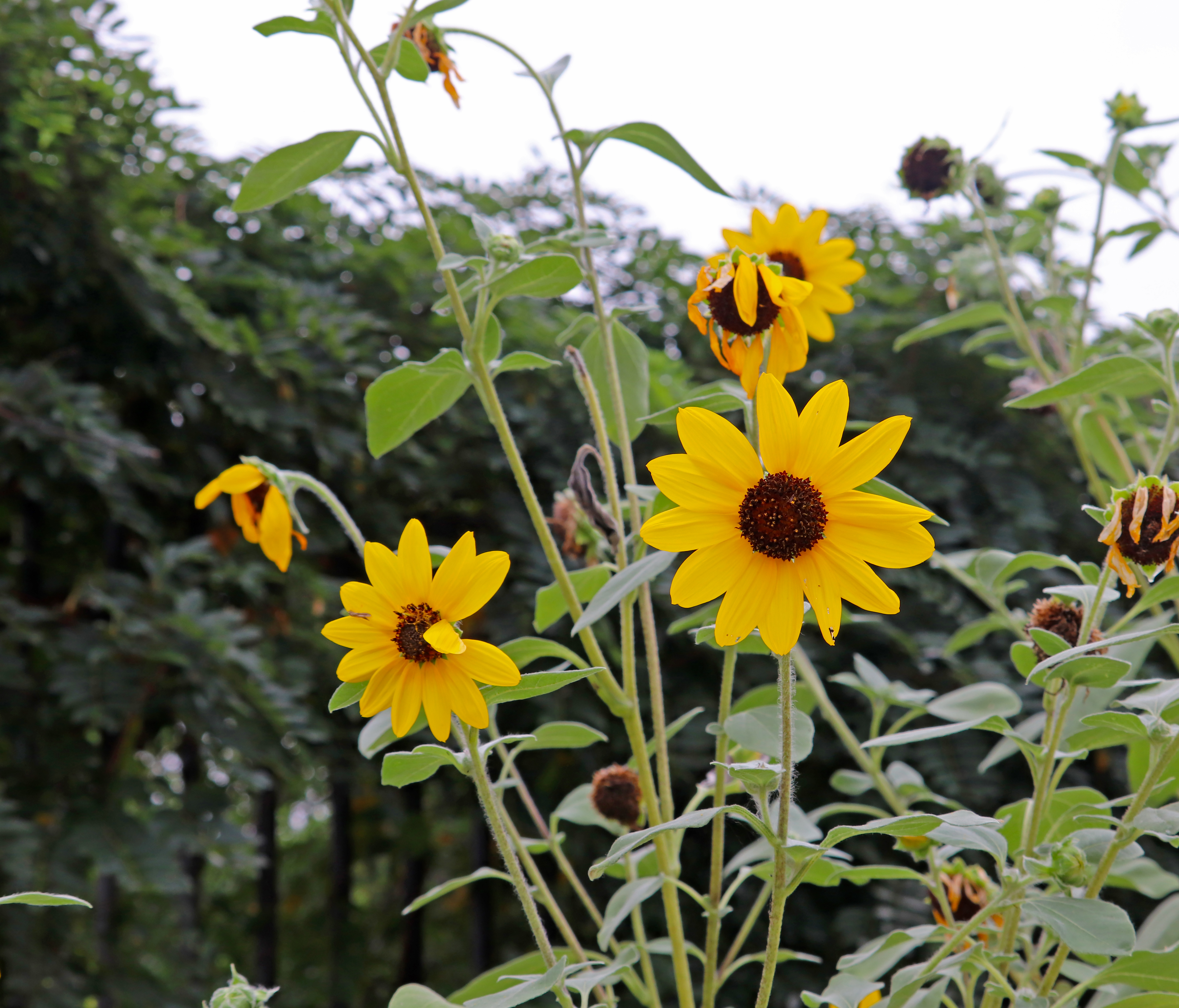 Helianthus argophyllus 'Gold and Silver' on the grounds of the U.S. National Arboretum in Washington D.C. on October 6, 2018. Identified by sign.